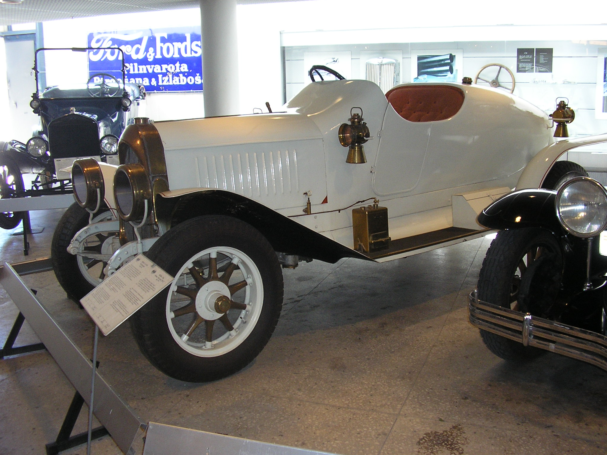 A 1914 Hansa G 12/36 Renntorpedo. It's a two seated sports car made in Oldenburg, Germany before WW1. It is powered by a 3140 cc inline-4 giving 36 hp and a top speed of about 80-90 km/h. In this car two Germans started a journey around the world. They made it from Berlin to Moscow before the war broke out and they had to give up. The car was used by members of the Soviet government until the mid 1920s. In the beginning of the 1980s fragments of the car was found partially sunk into the ground in the gardens of the Moscow district and it was renovated by AAK member O. Orleāns.